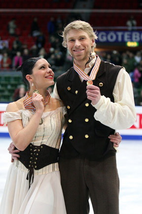 Isabelle Delobel & Olivier Schoenfelder during the ice dancing medals ceremony at the 2008 World Championships.